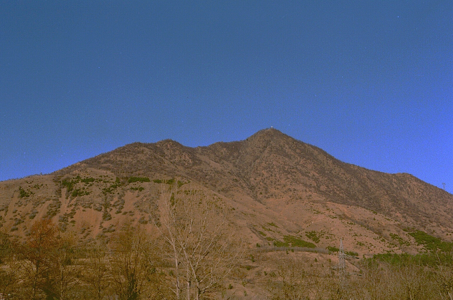 Il versante sud del Musinè visto dalla ex-statale 24, nei pressi di Milanere This is a photography of Natura 2000 protected area with ID IT1110081